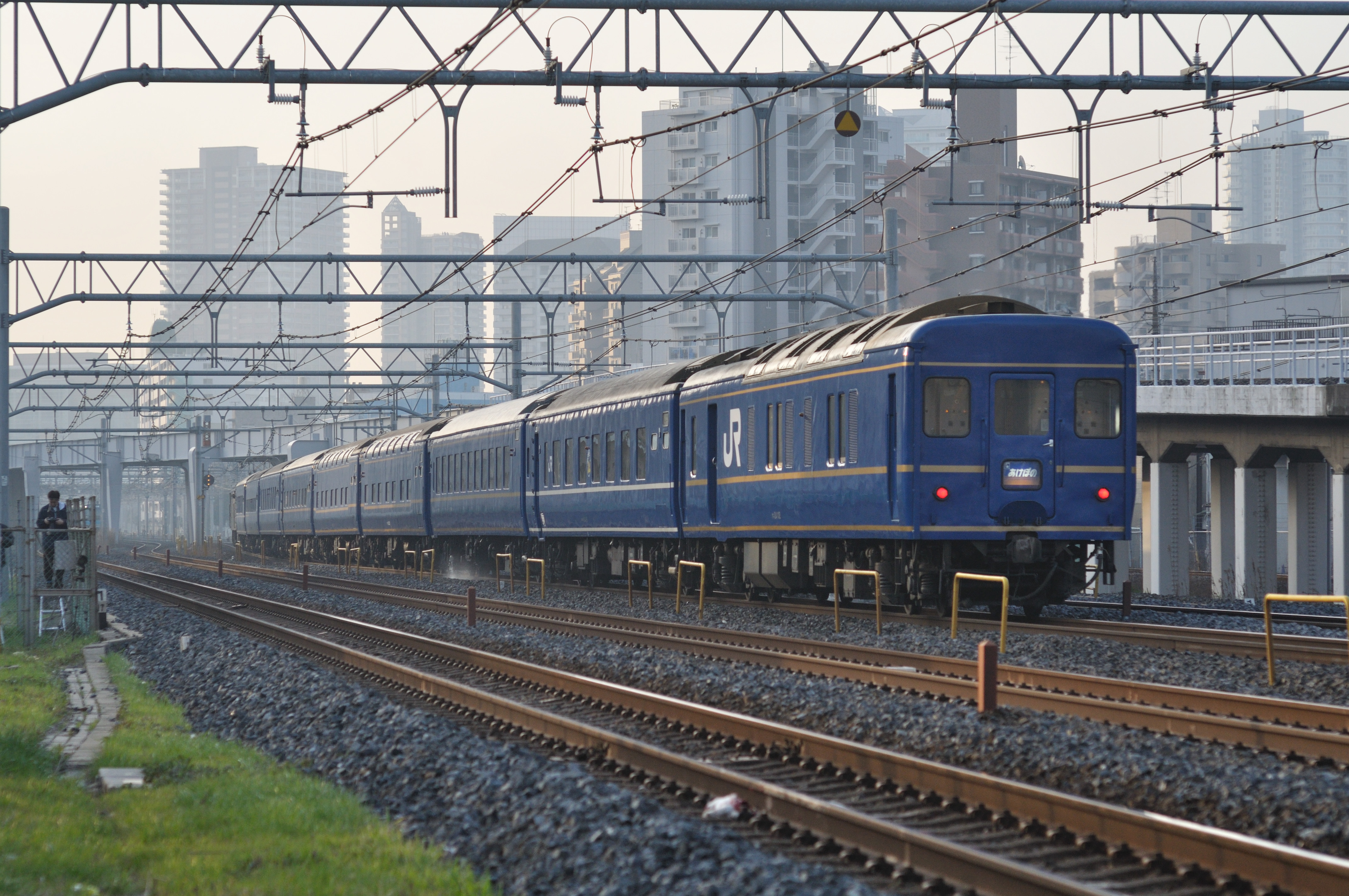 The rear end of the up Akebono overnight sleeping car service north of Ueno in Tokyo